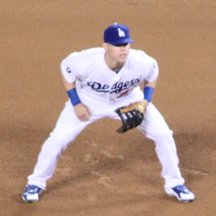 Jerry Sands